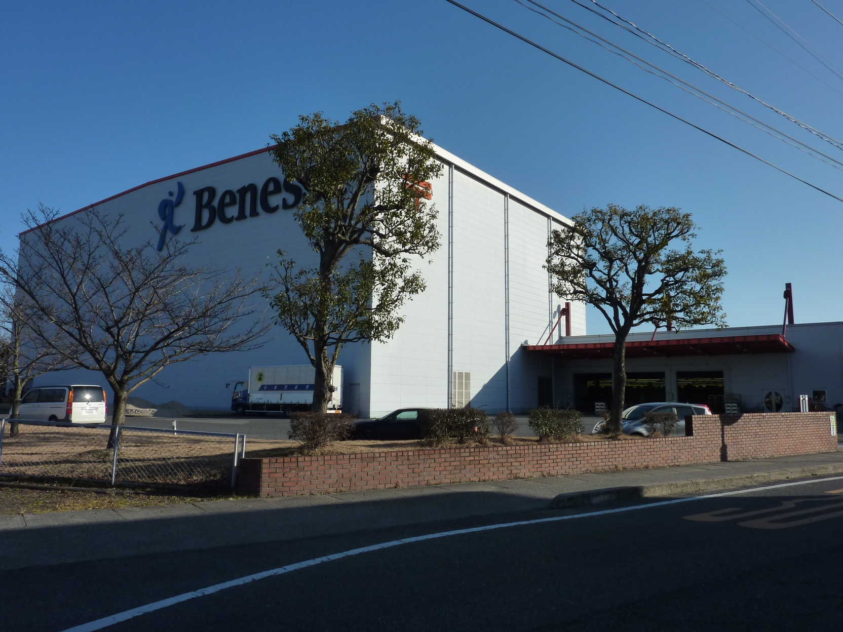 Japan Post Service - Okayama Branch Osahune Office (Setouchi City, Okayama, Japan)